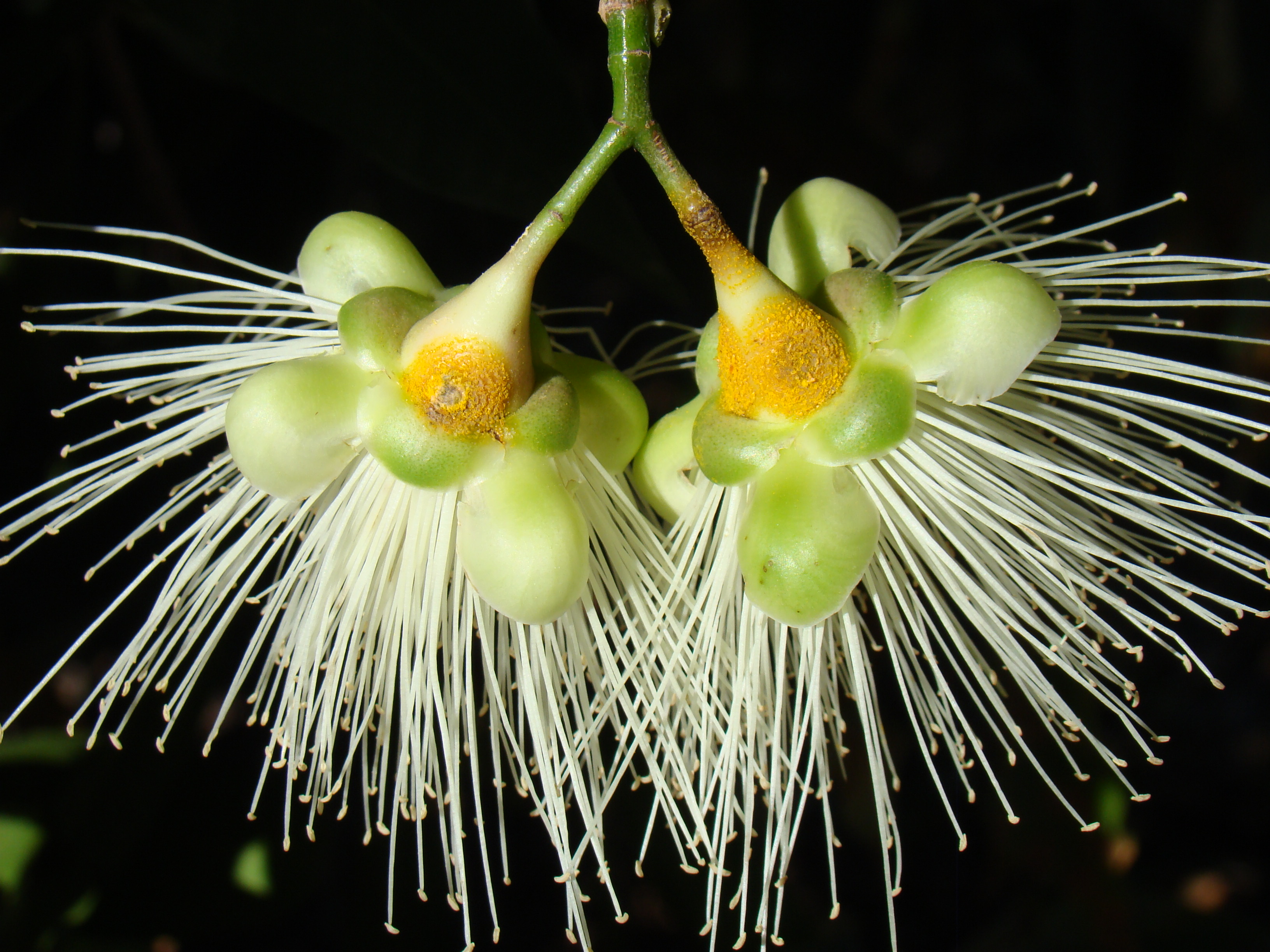 Flowers infected with Neotropical Rust (Puccinia psidii) trying to bloom in a Rose Apple (Syzygium jambos) tree in Ghosh Grove, Rockledge, Florida.